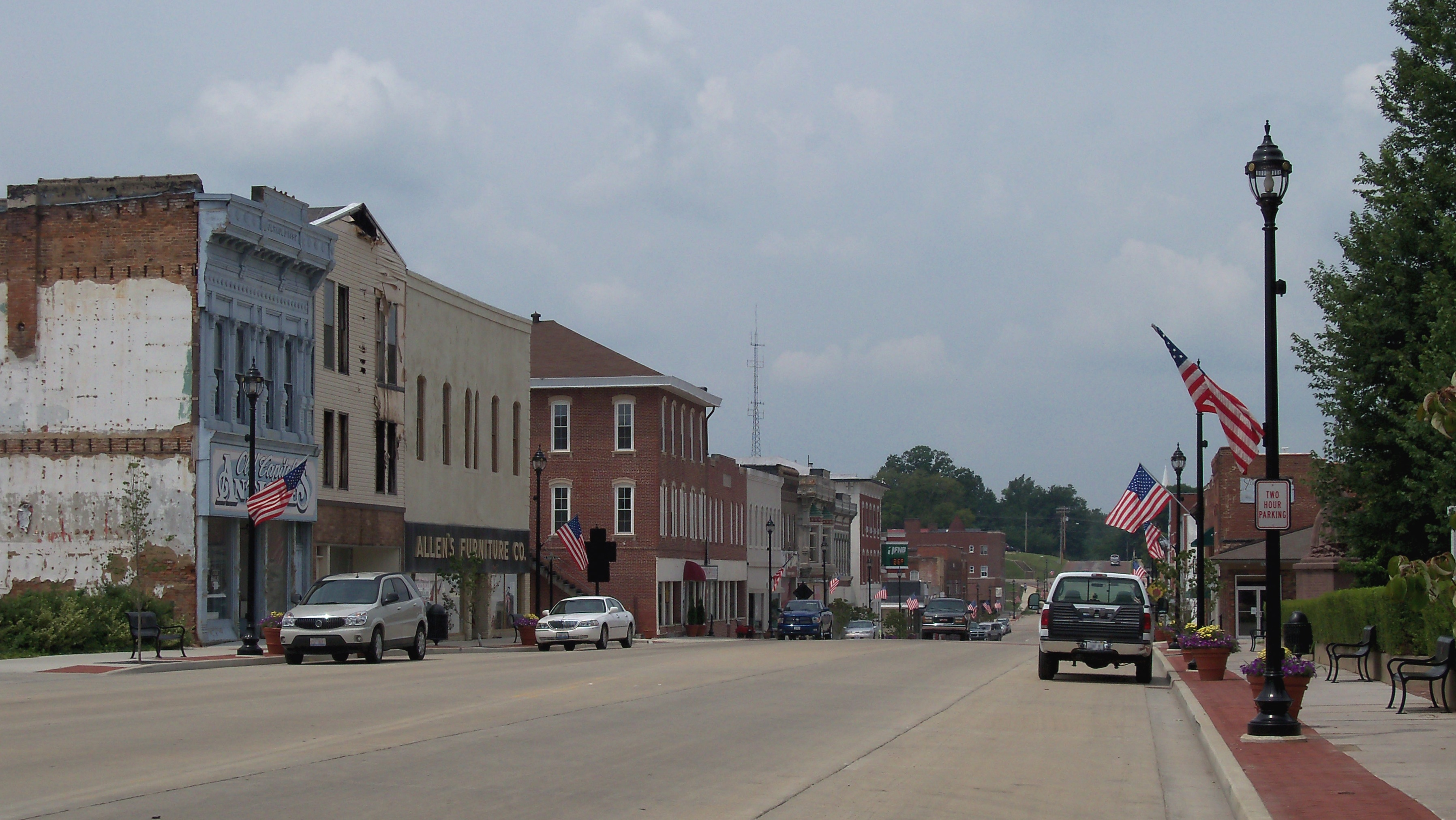 Buildings in the 300 block (and upwards) of West Gallatin Street, looking west, from north side of street (next to the Vandalia Statehouse), downtown Vandalia, Illinois, USA. The Madonna of the Trail (NE corner Gallatin and 4th Streets) is barely visible at the right side of this photo.